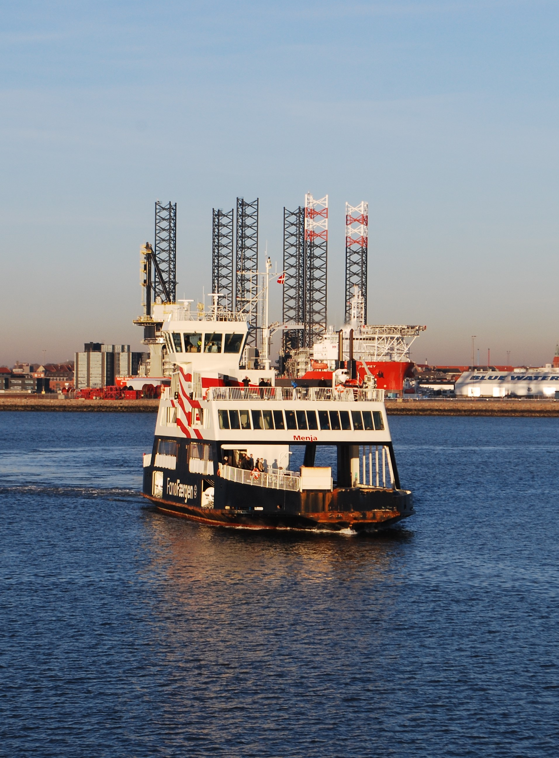 M/F Menja, Nordby (Fanø)- Esbjerg, Denmark